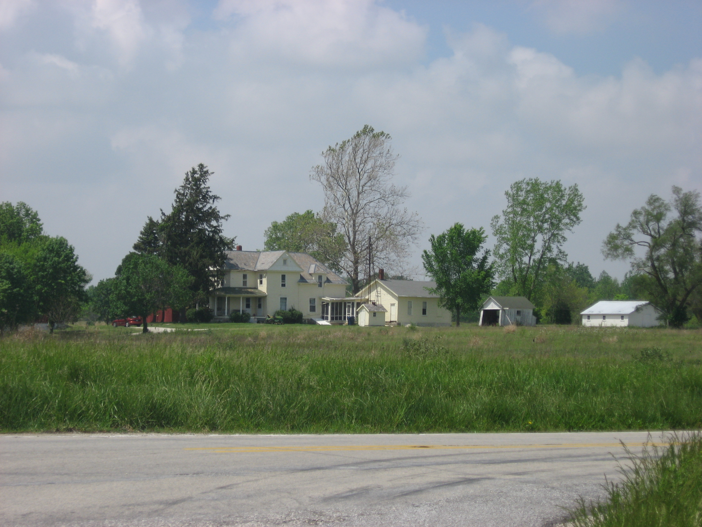 Distant view from the southeast of the Young-Yentes-Mattern Farm, located northwest of the junction of State Road 105 and County Road W400N northwest of Huntington in Dallas Township, Huntington County, Indiana, United States. Established in 1838, the farm is listed on the National Register of Historic Places.